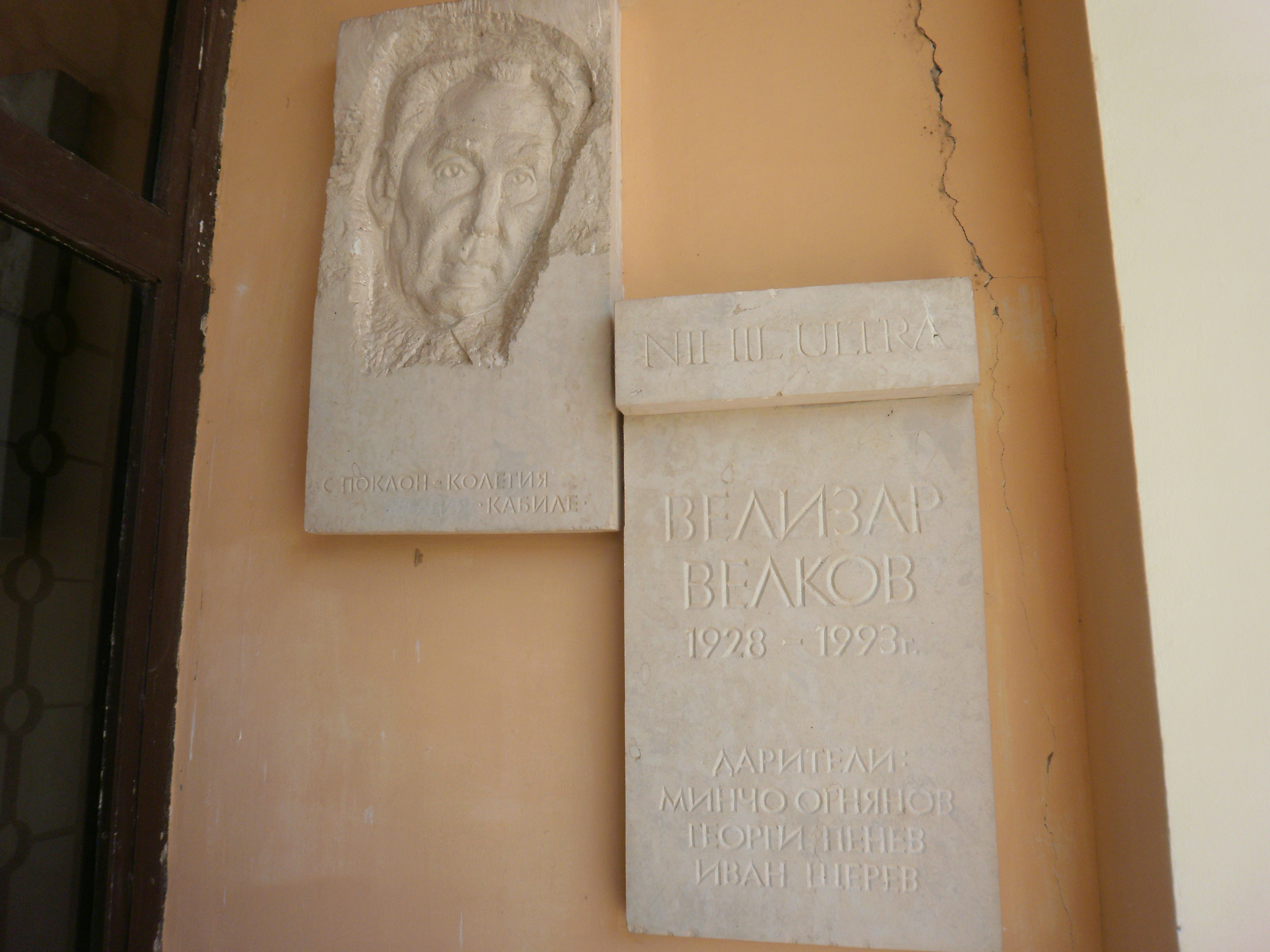 Kabile, Bulgaria